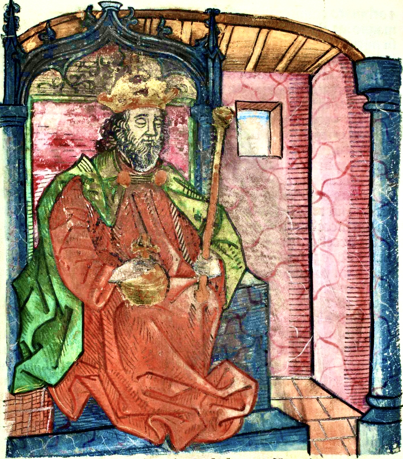 Béla II of Hungary